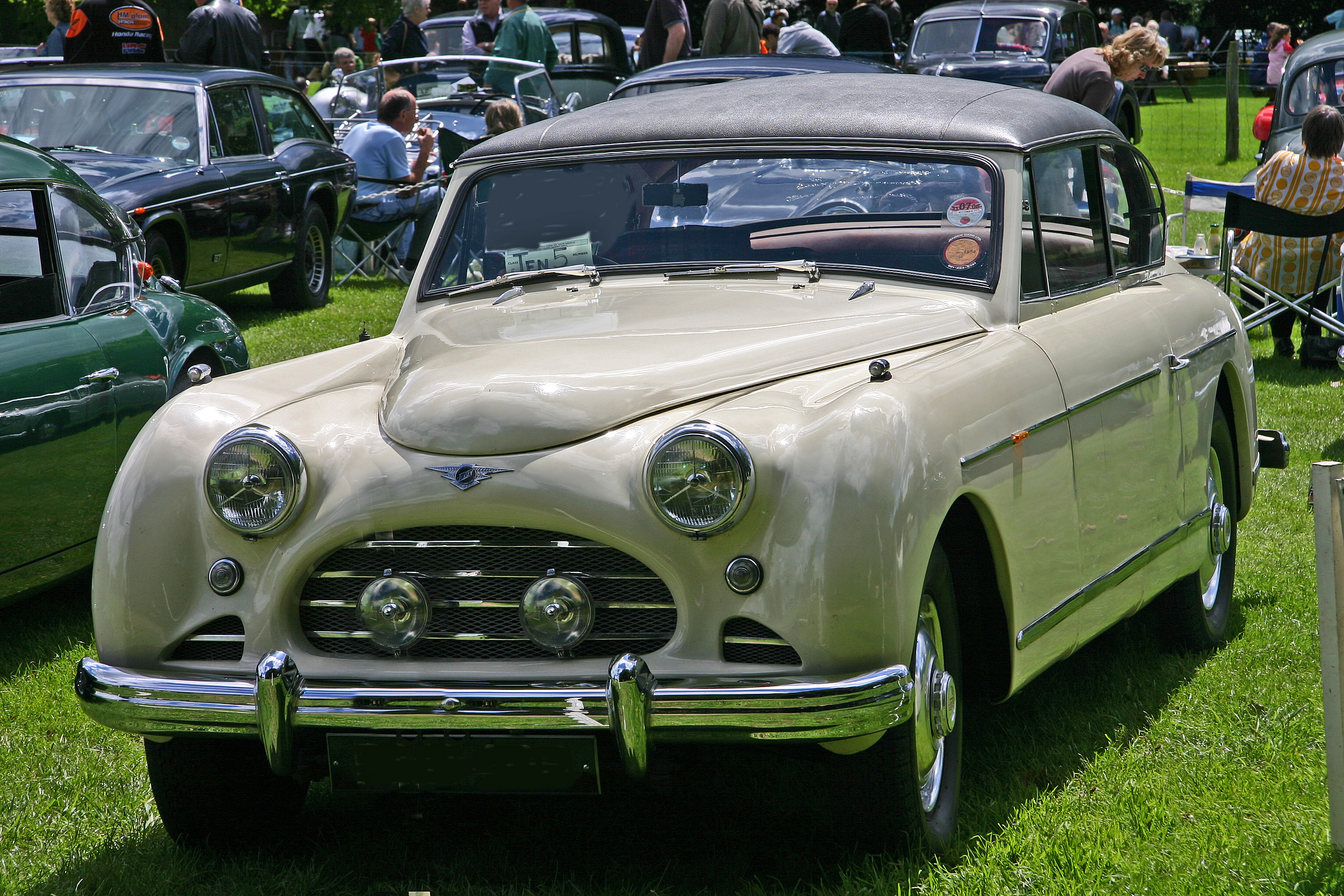 Jensen Interceptor 1954. Eric Neale had joined Jensen from Wolseley and designed the Interceptor for 1950 launch. Leonard Lord agreed to supplyling Austin engine and chassis for the car, if in return Jensen build a smaller version for Austin; this was launched as the Austin A40 Sports